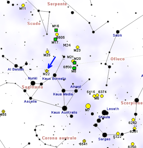 M22